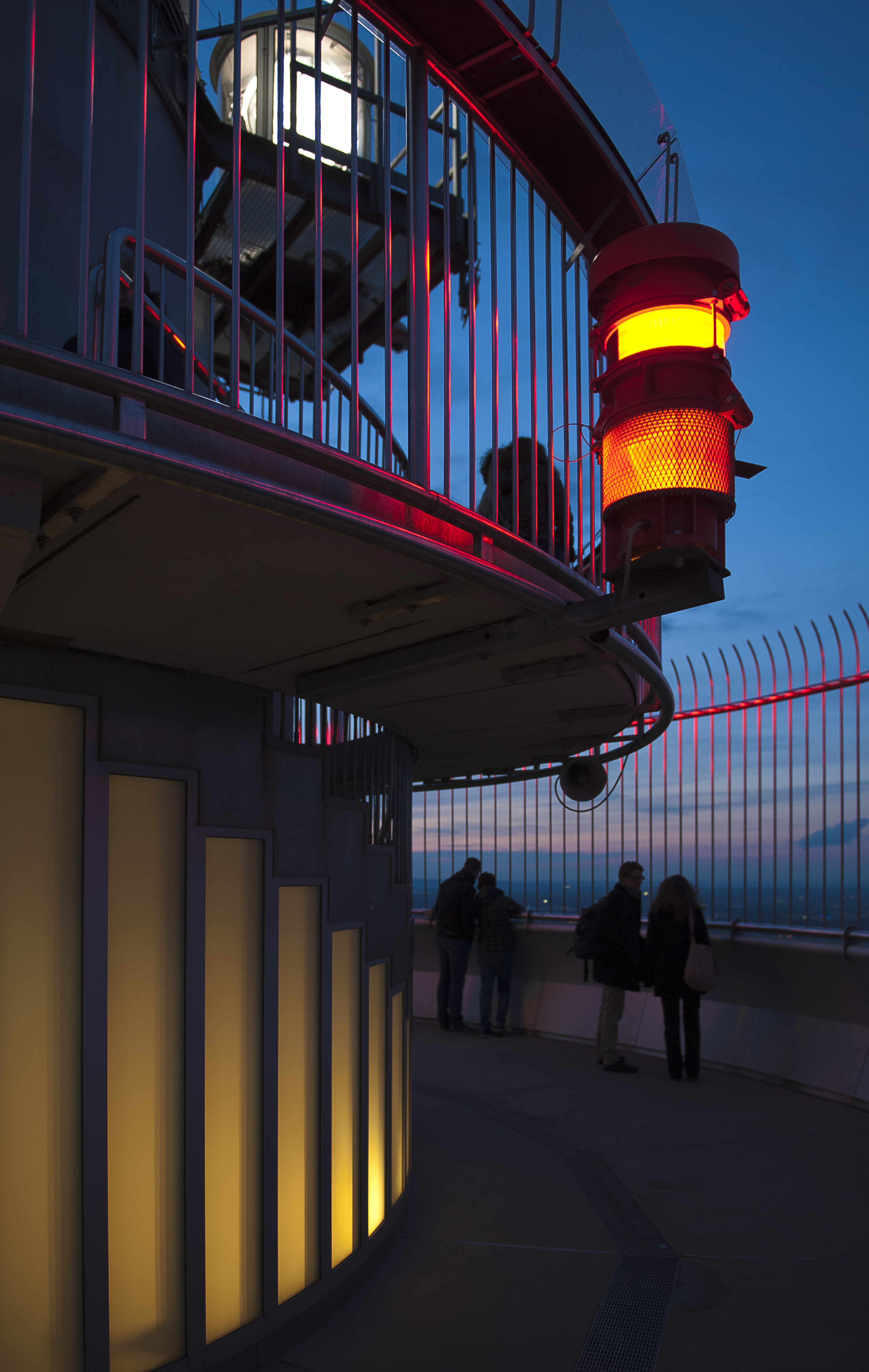 Television tower, Stuttgart, Germany. Observation deck